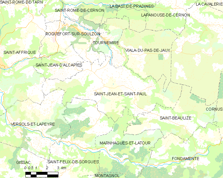 Map commune FR insee code 12232.png - Saint-Jean-et-Saint-Paul